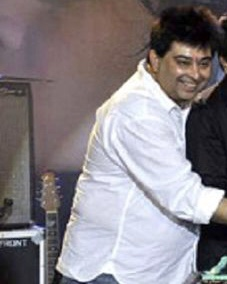 Jeet Gannguli at the live concert of 'Aashiqui 2'